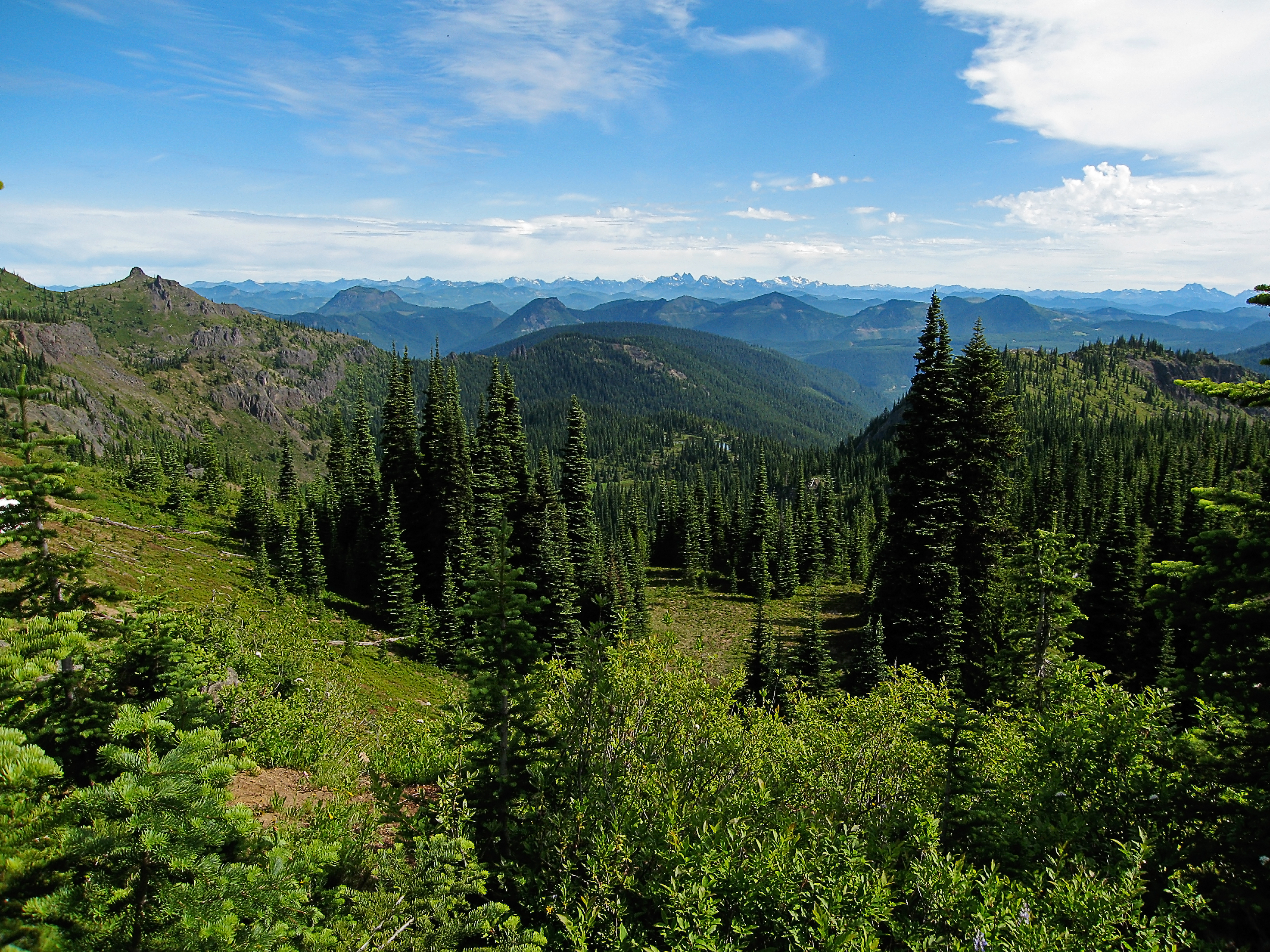 After getting around Mutton Mountain, the trail to Noble Knob reaches a high point with nice views. This photo is looking north or northeast, down into the Lost Creek valley. The near mountain on the far left side is part of Noble Knob. Mutton Mountain is off the right edge of the photo. In the distance is the Cascades. The sharp mountains in the center are the peaks near Snoqualmie Pass. Behind them is Glacier Peak (large or original size view to see). Even Mount Baker is visible in the original size, off to the left, but it is small and faint.